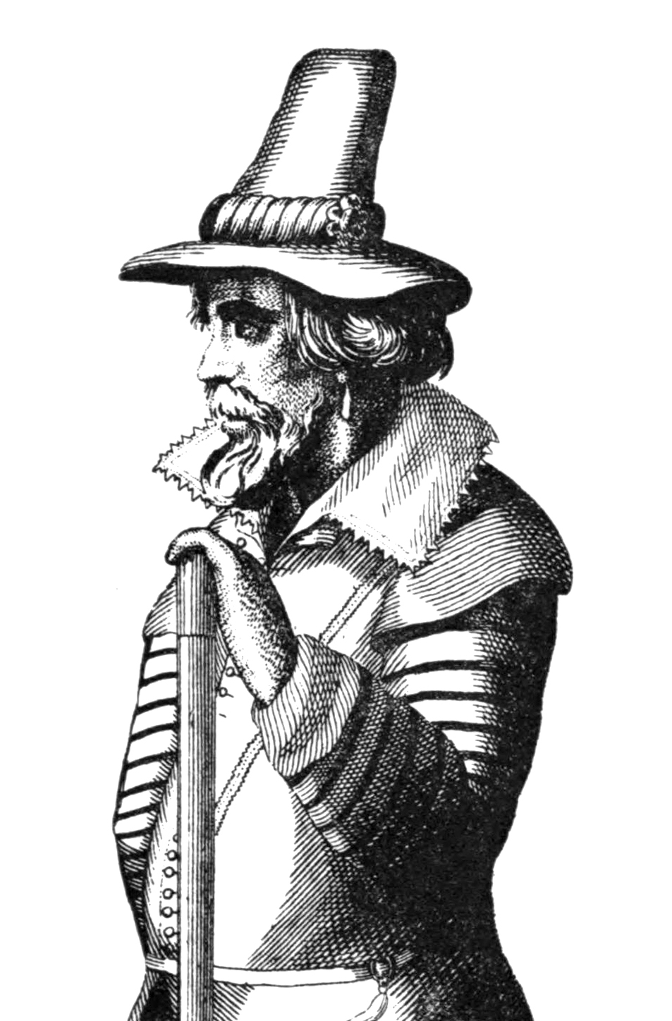 page 32